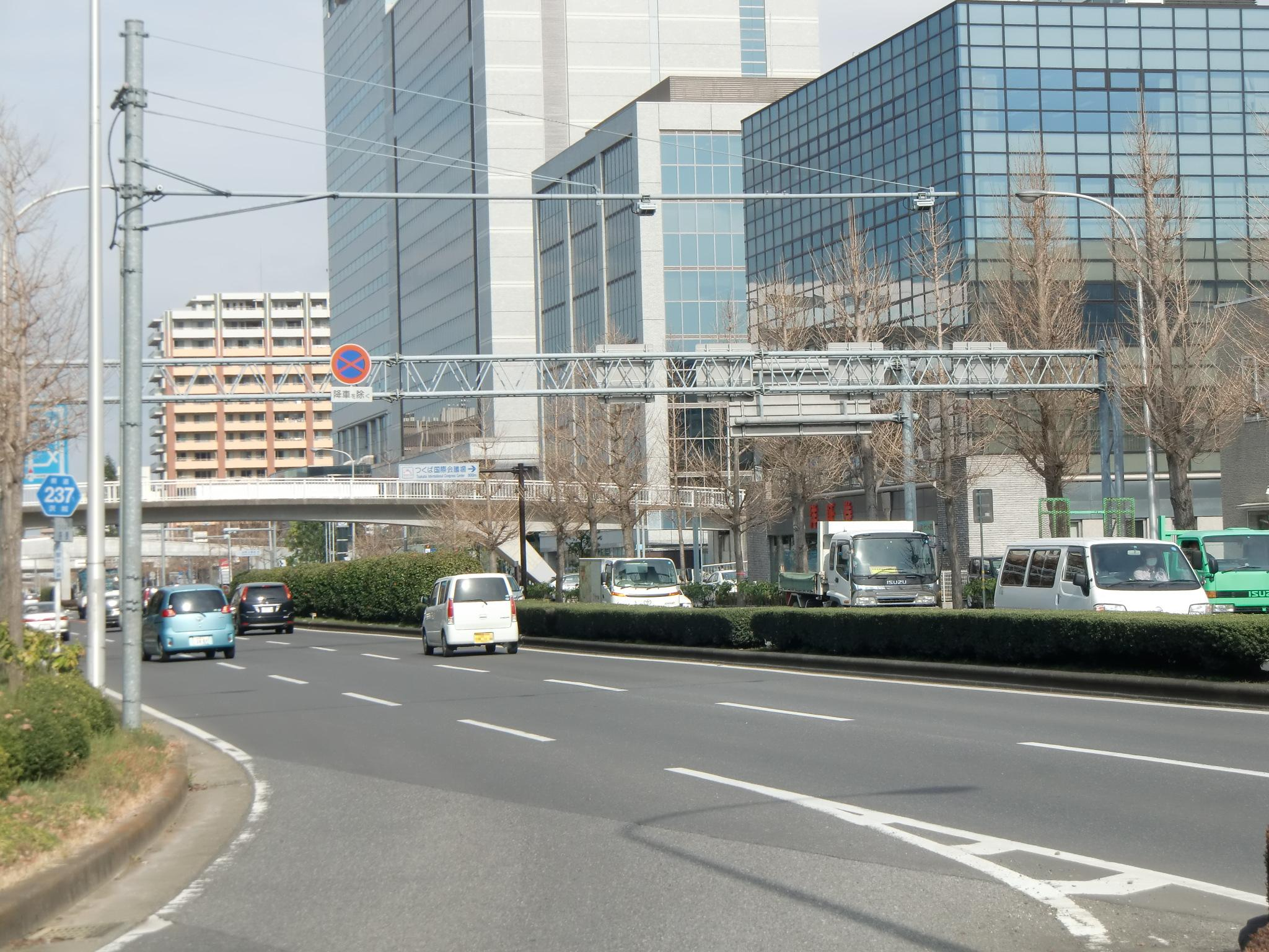 Ibaraki prefectural road 237 (Hanamuro-Ushiku line) in Azuma, Tsukuba city, Ibaraki prefecture, Japan.